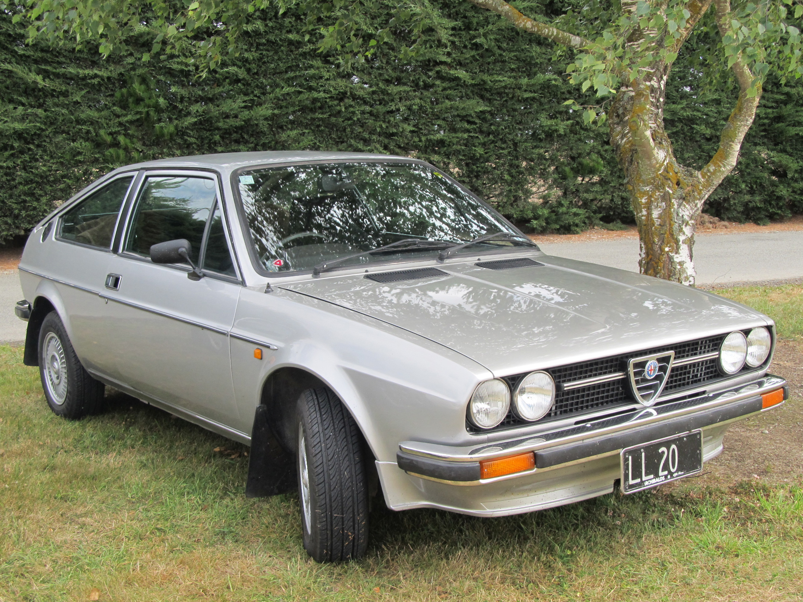 LL2021 This was great to see - a well-kept Sprint, free from rust! I always liked these more than the GTV, such a clean and neat design. I wouldn't mind one of these one day... These look fantastic in deep red and yellow.